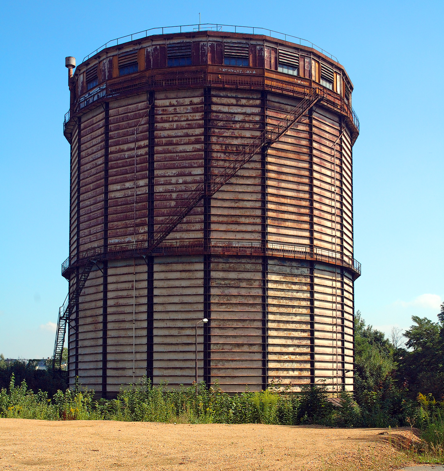 This image shows an old gasometer in Zwickau.